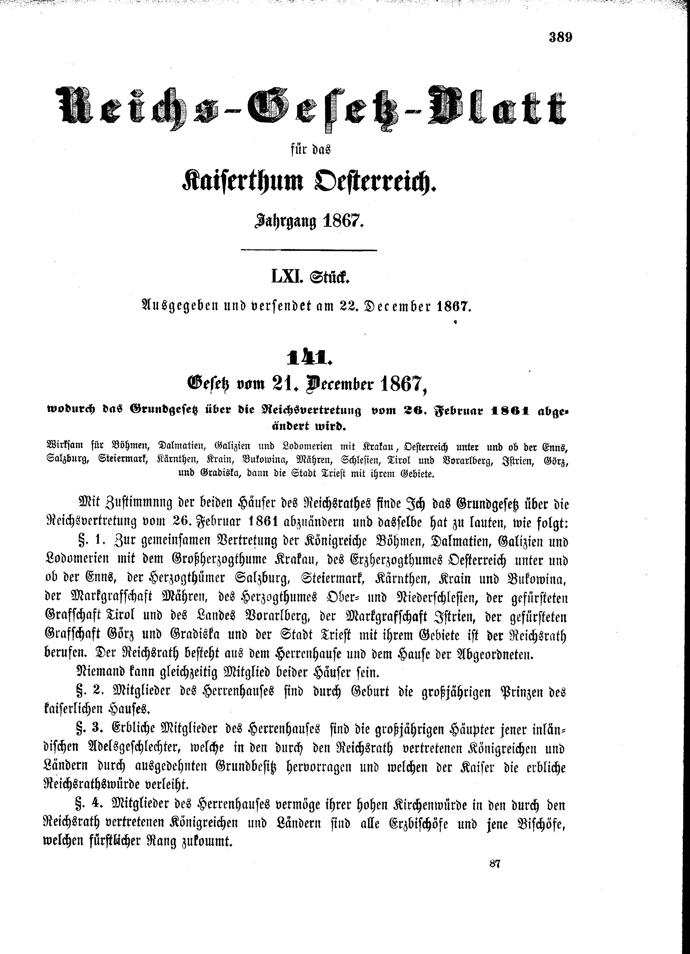 This is a scan of the historical document